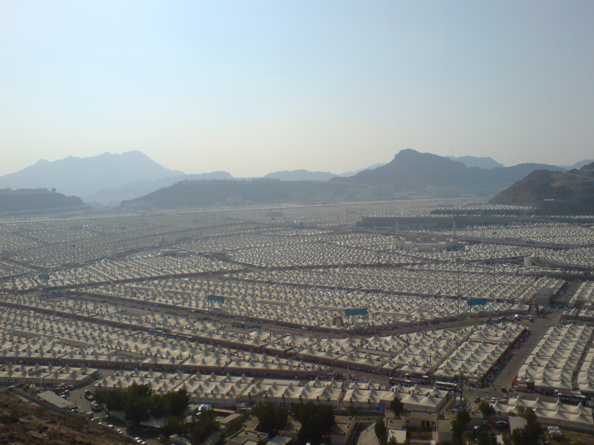 Photo from mountainside of the tented areas covering the Plain of Mina, Saudi Arabia